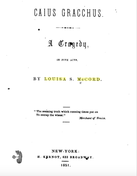 Caius Gracchus: A Tragedy in Five Acts, By Louisa Susannah Cheves McCord